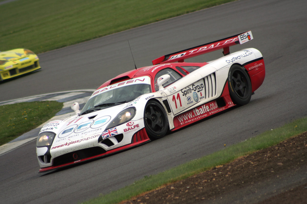 Saleen S7 GT1 R Taken at the FIA GT Championship 7th May 2006 Silverstone